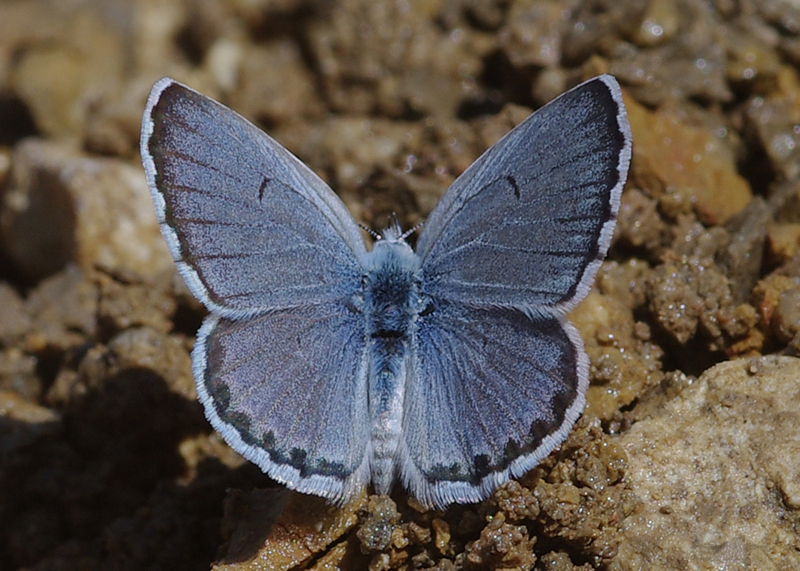 Eastern Baton Blue), Karaman, TurkeyTürkçe: Himalaya Mavi Kelebeği, Karaman, Türkiye